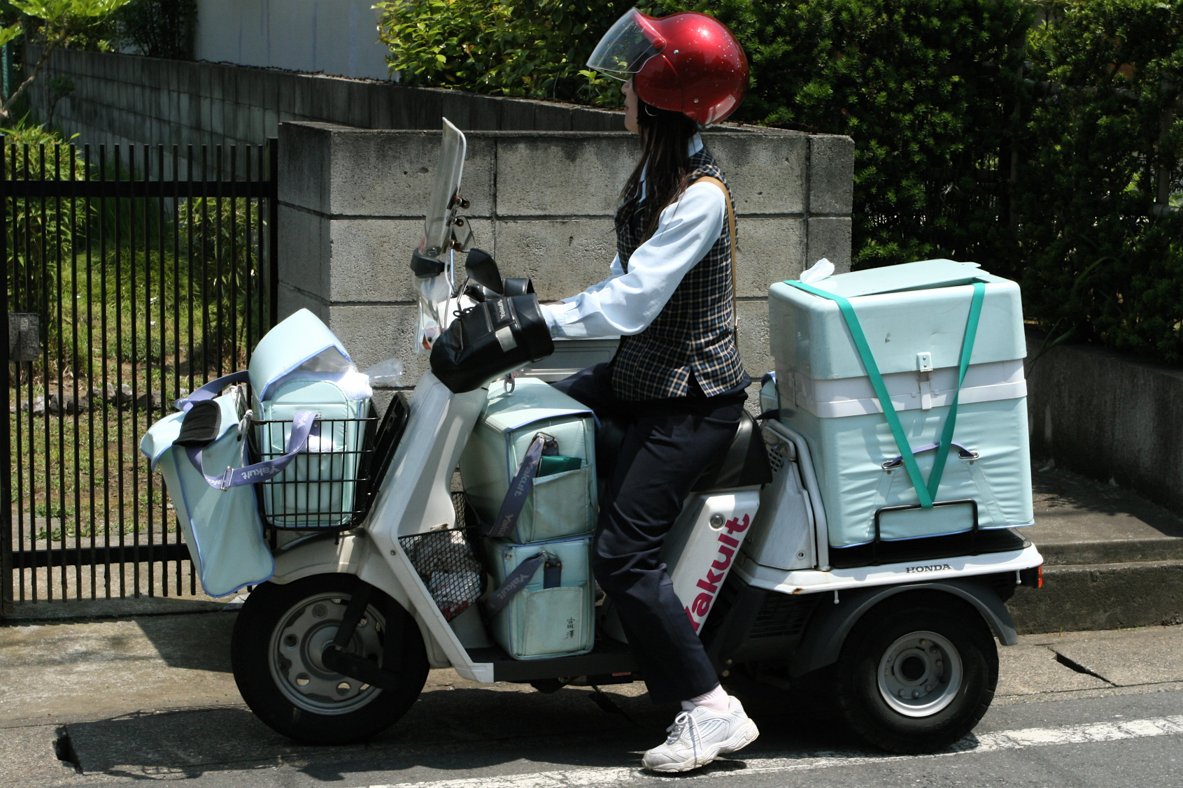 A young lady delivers hot food to a residence in Sakura, Japan. I was fascinated by her gloves which I guess are hand warmers?